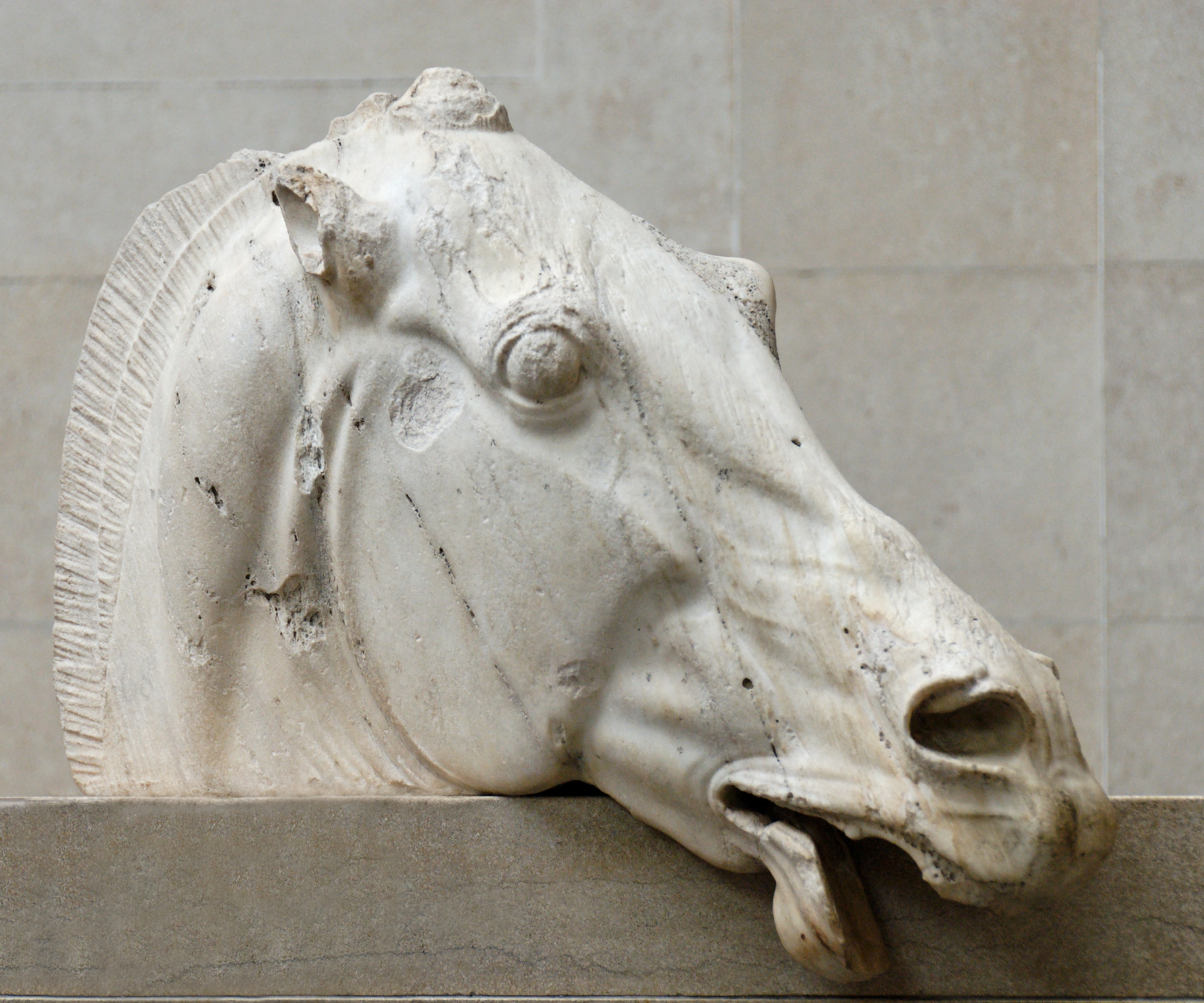 Head of a horse from Selene's chariot. Parthenon east pediment, ca. 447–433 BC.